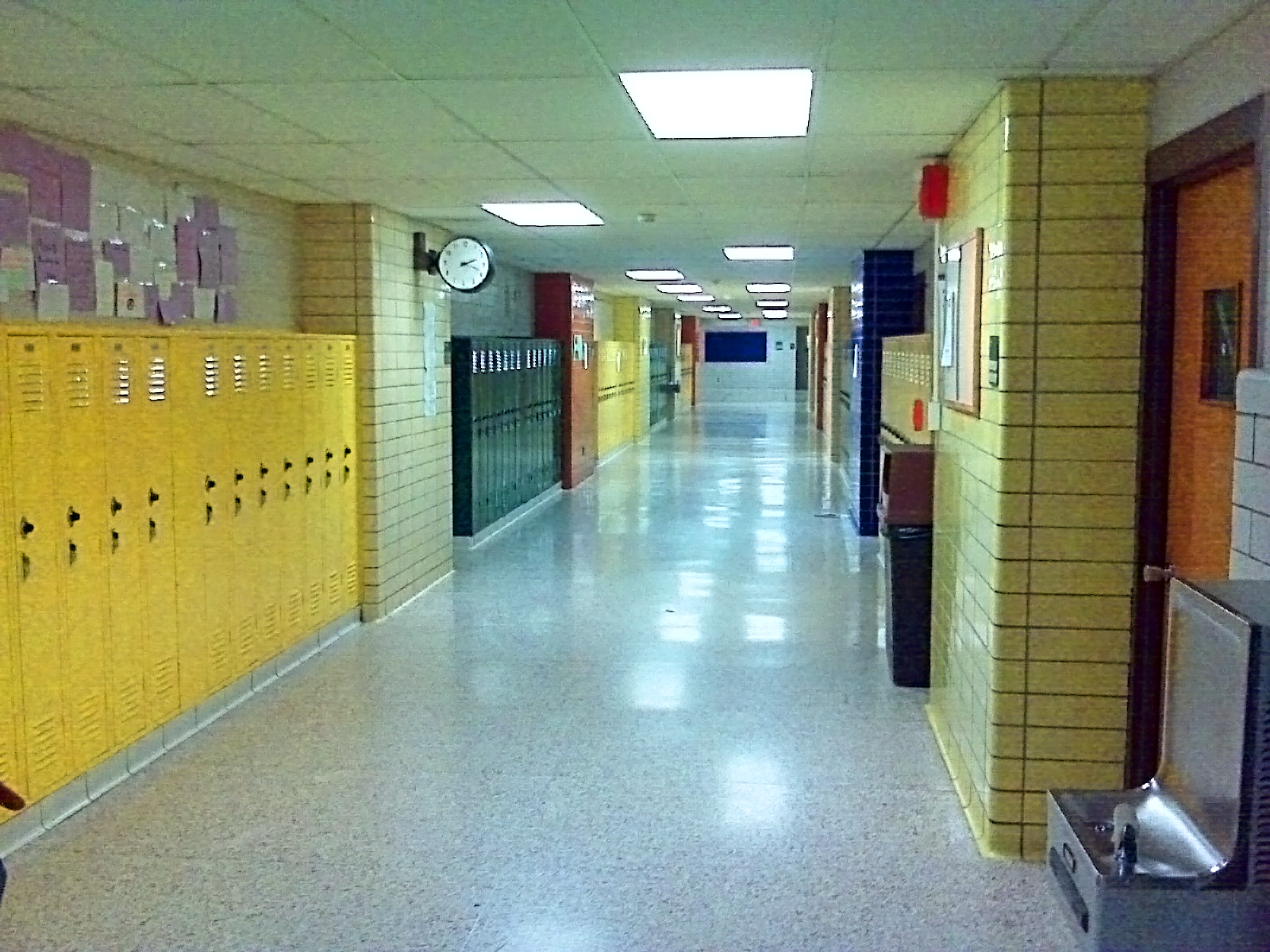 Langley High in 2008.